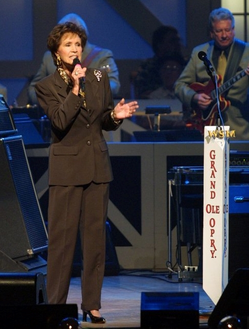 Jan Howard performing at the Grand Ole Opry, 2000's.